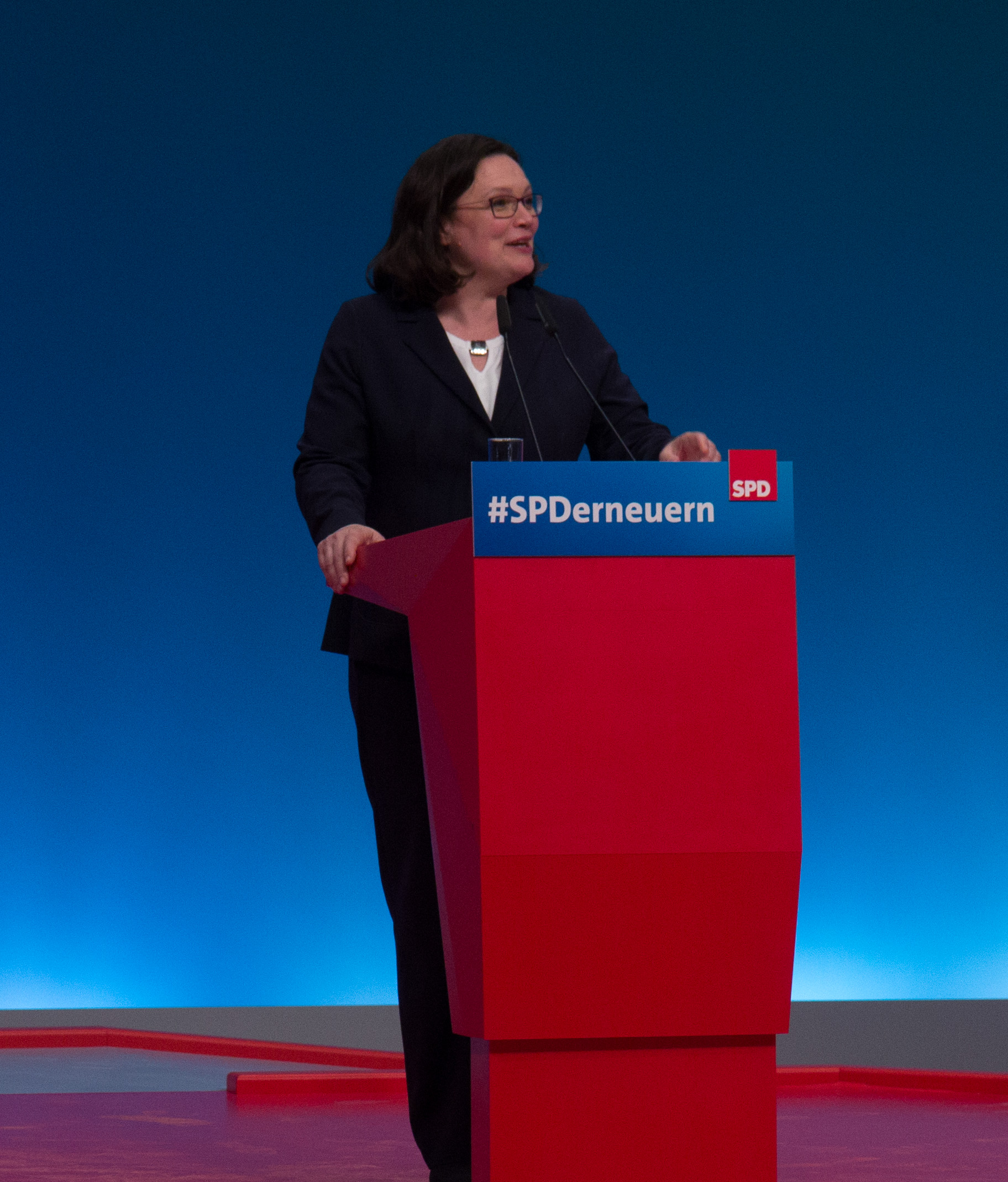 Andrea Nahles speaks at the party congress of the Social Democratic Party of Germany in Wiesbaden 2018